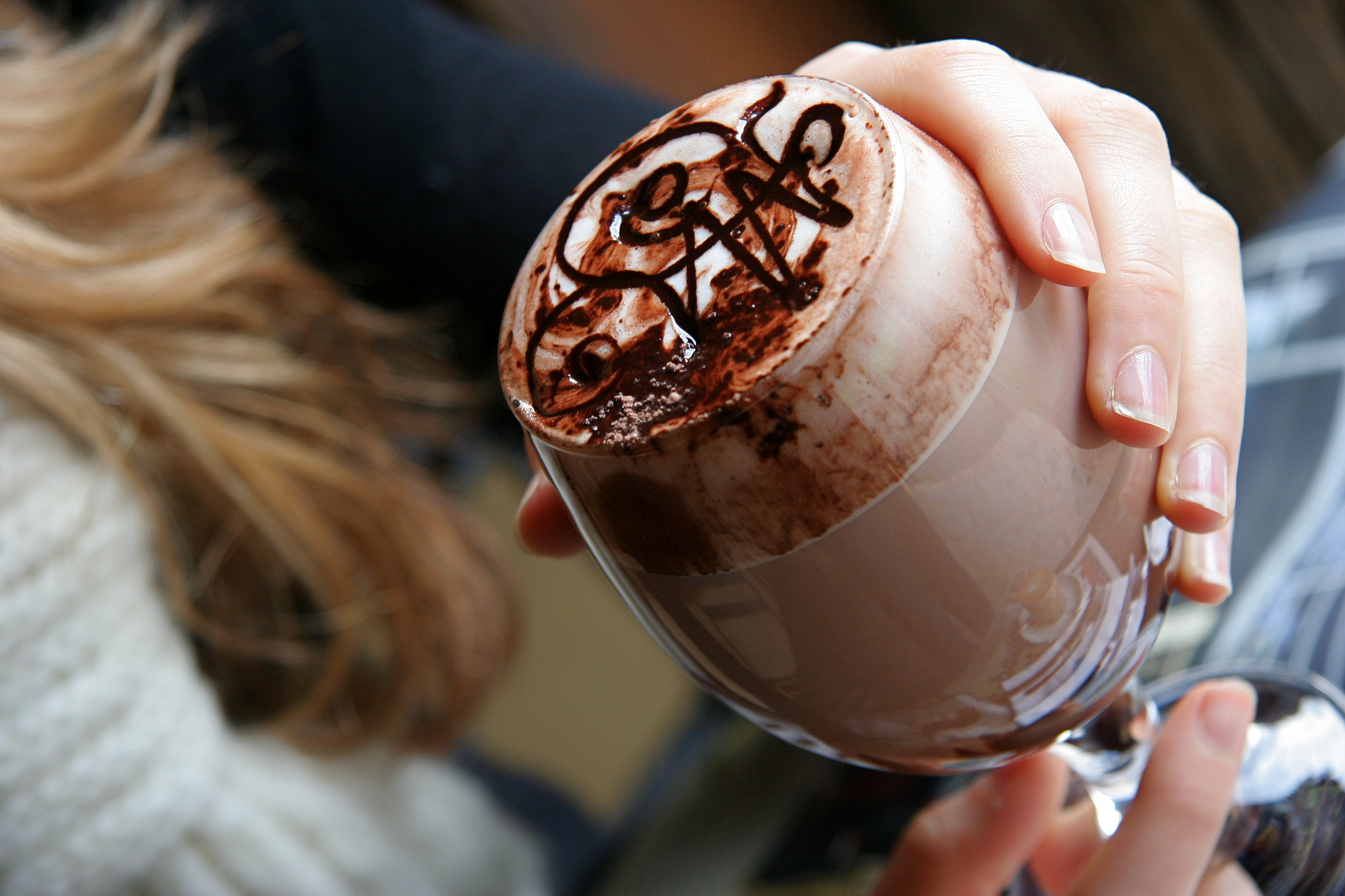 Great walk around Montsalvat - in the rain - finished of with hot chocolate!